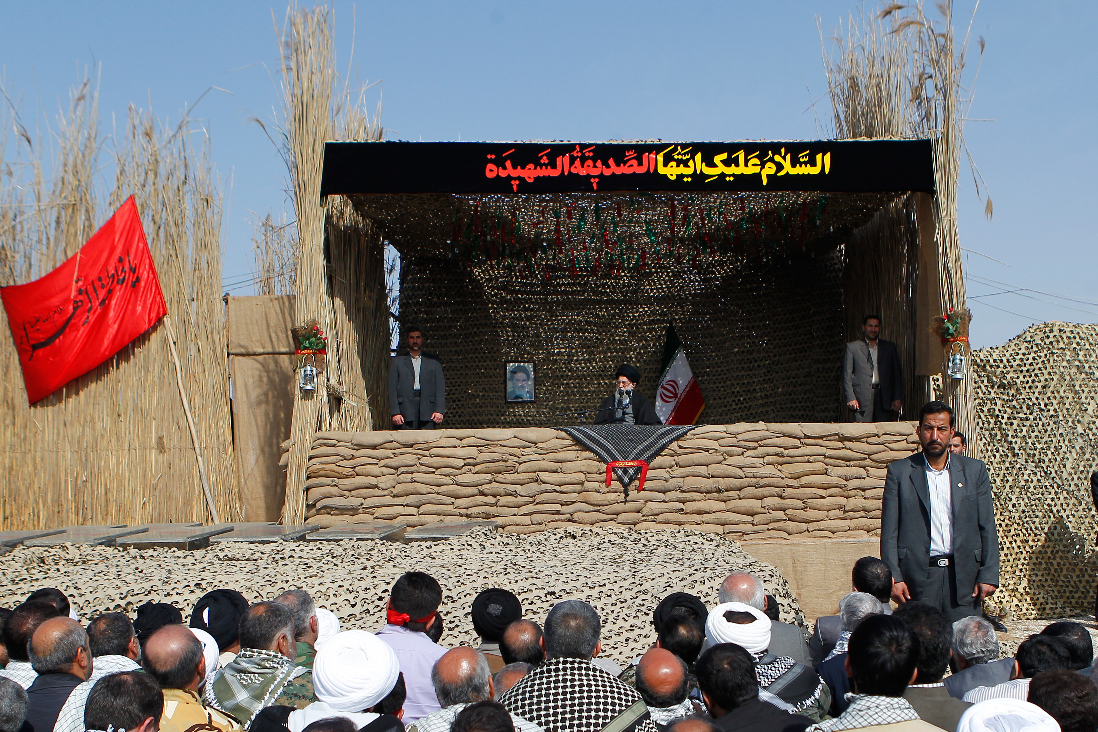 Presence and Speeche of Ayatollah Seyyed Ali Khamenei in the memory of the martyrs of the eastern Karun in the Darkhoveyn Operational Zone In the crowd convoy of the Rahian-e Noor, Nowruz 2014